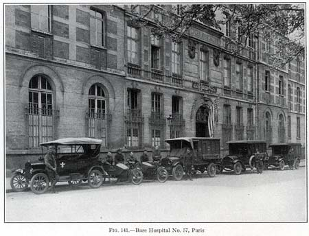 Caption Fig 141 - American Base Hospital No. 57